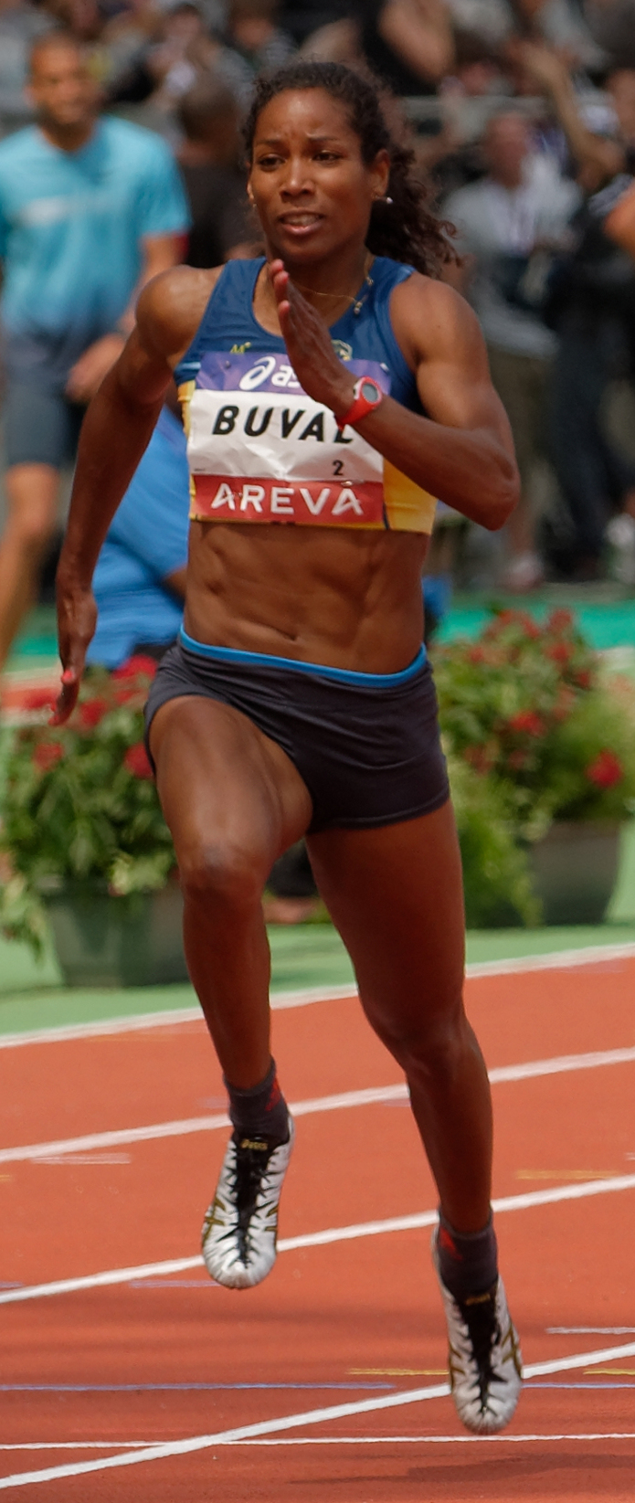 Céline Distel-Bonnet runs to win the second series of the women's 100-metre race in 11"31 during the French Athletics Championships 2013 at Stade Charléty in Paris, 13 July 2013.